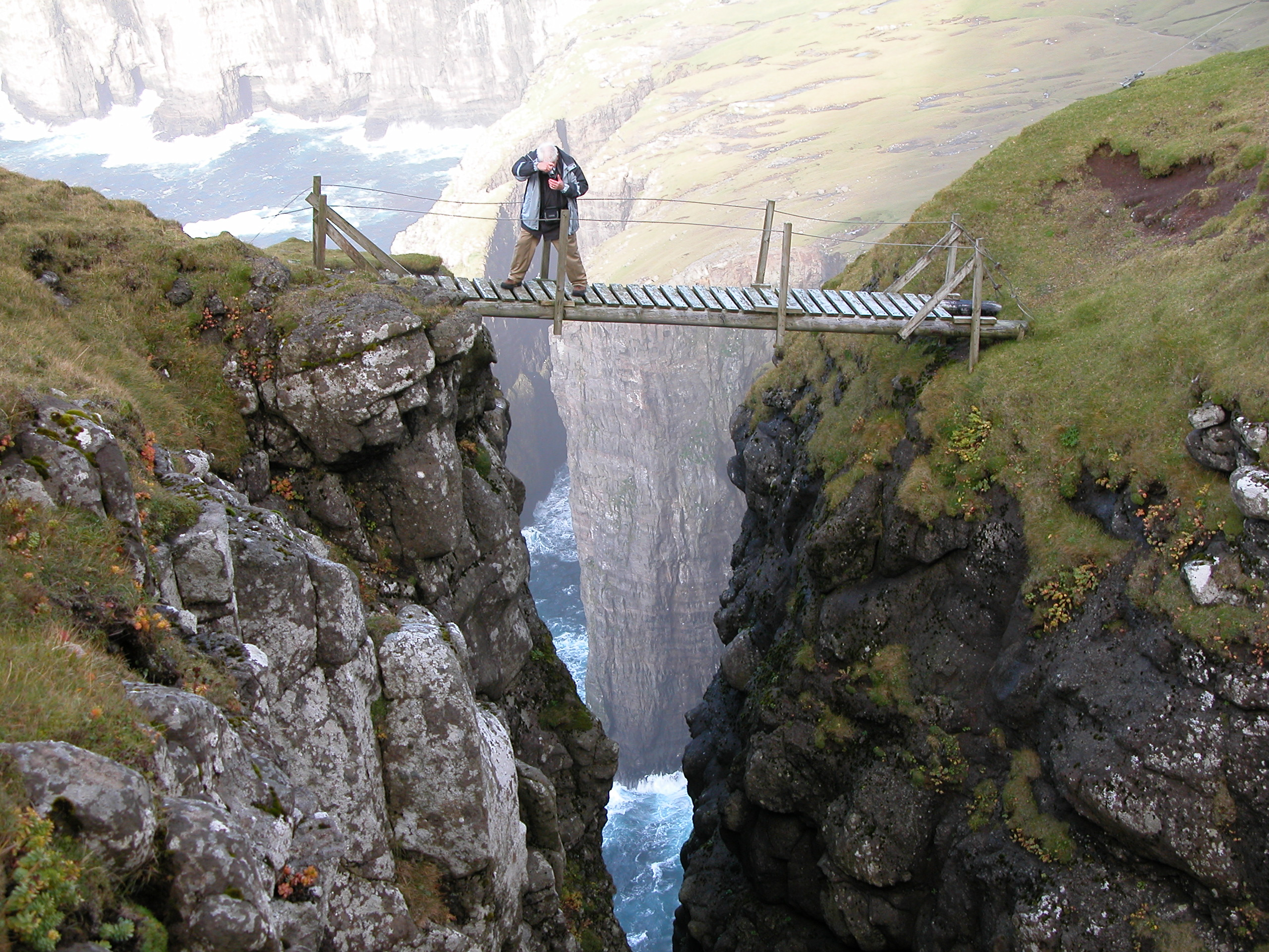 West coast of Sandvík, Suðuroy, Faroe Islandsa